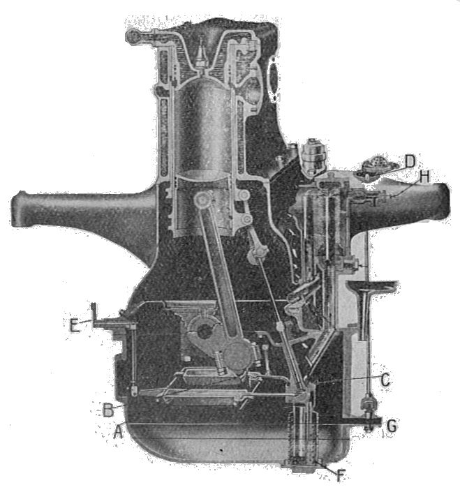 Knight sleeve-valve engine, section (Autocar Handbook, Ninth edition).jpg